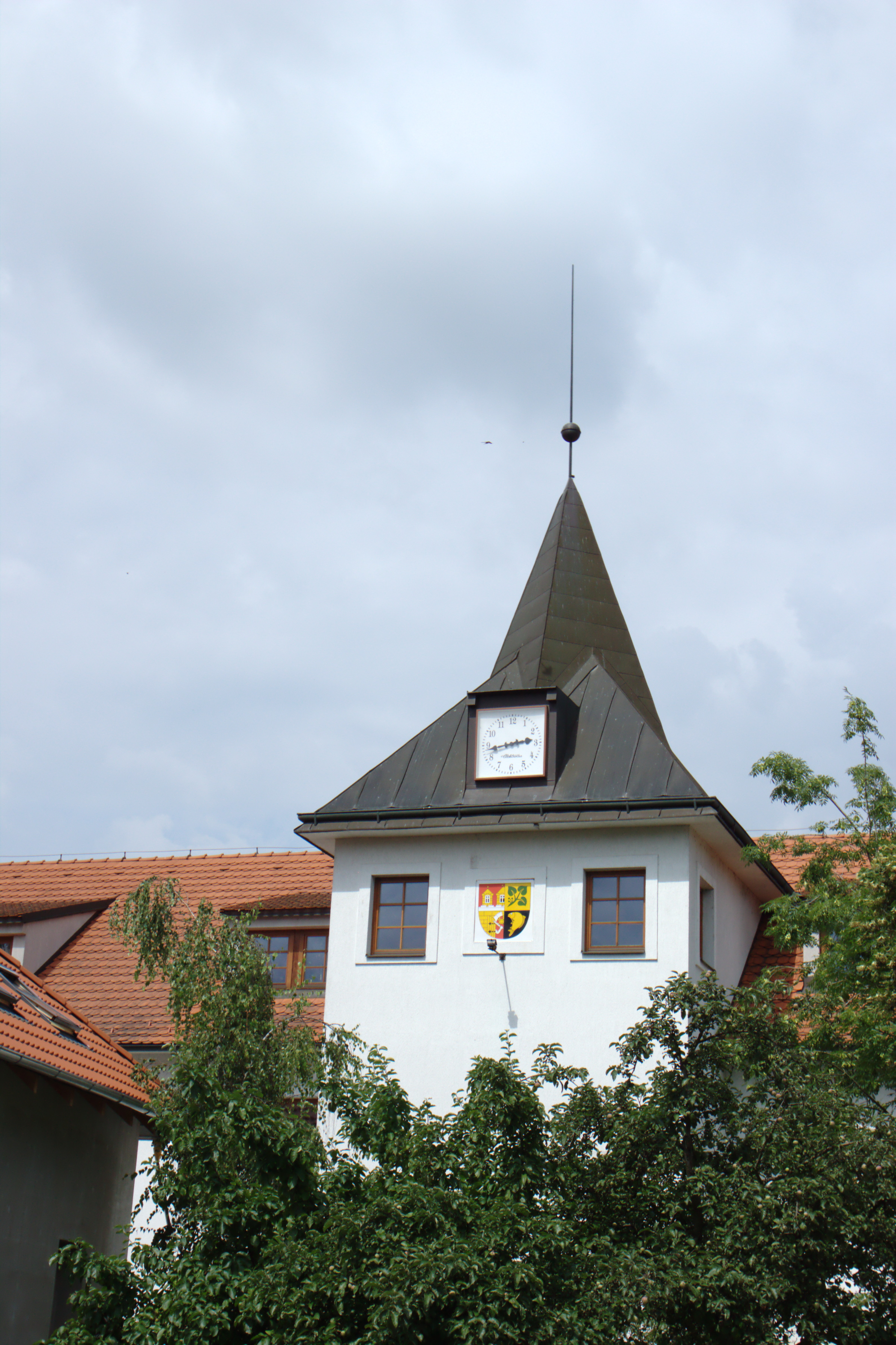 A spire of the Dolní Počernice Chateau, Prague, CZ